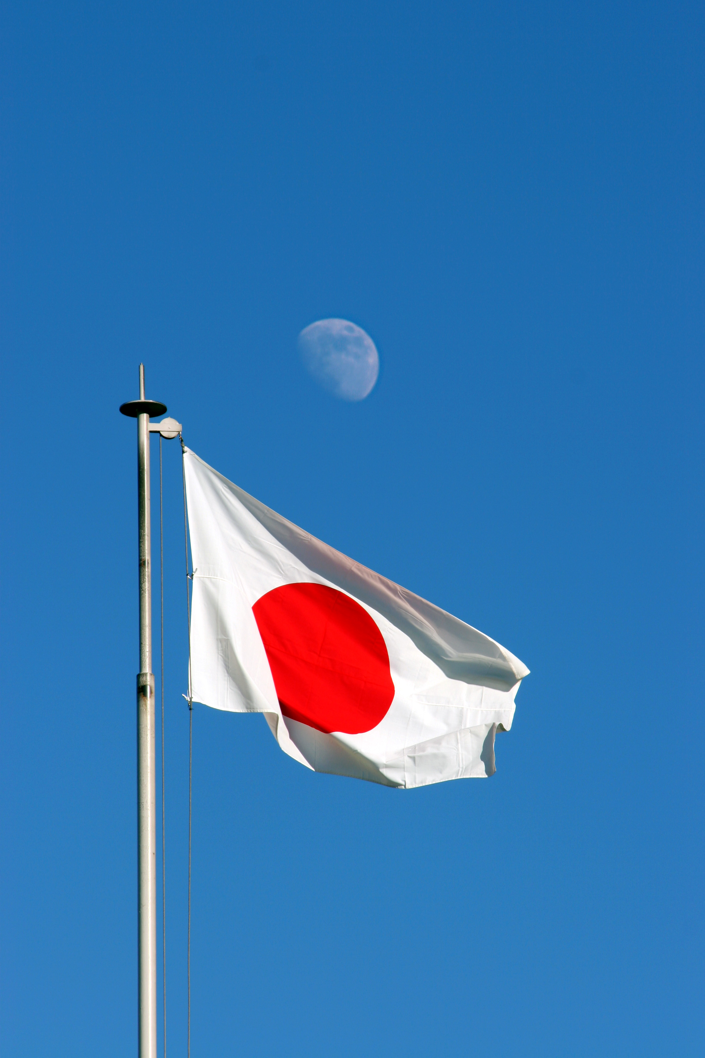 Nihonbashi, Tokyo Japan sun and the moon)&t=m See where this picture was taken. [?] [MAP by ALPSLAB]